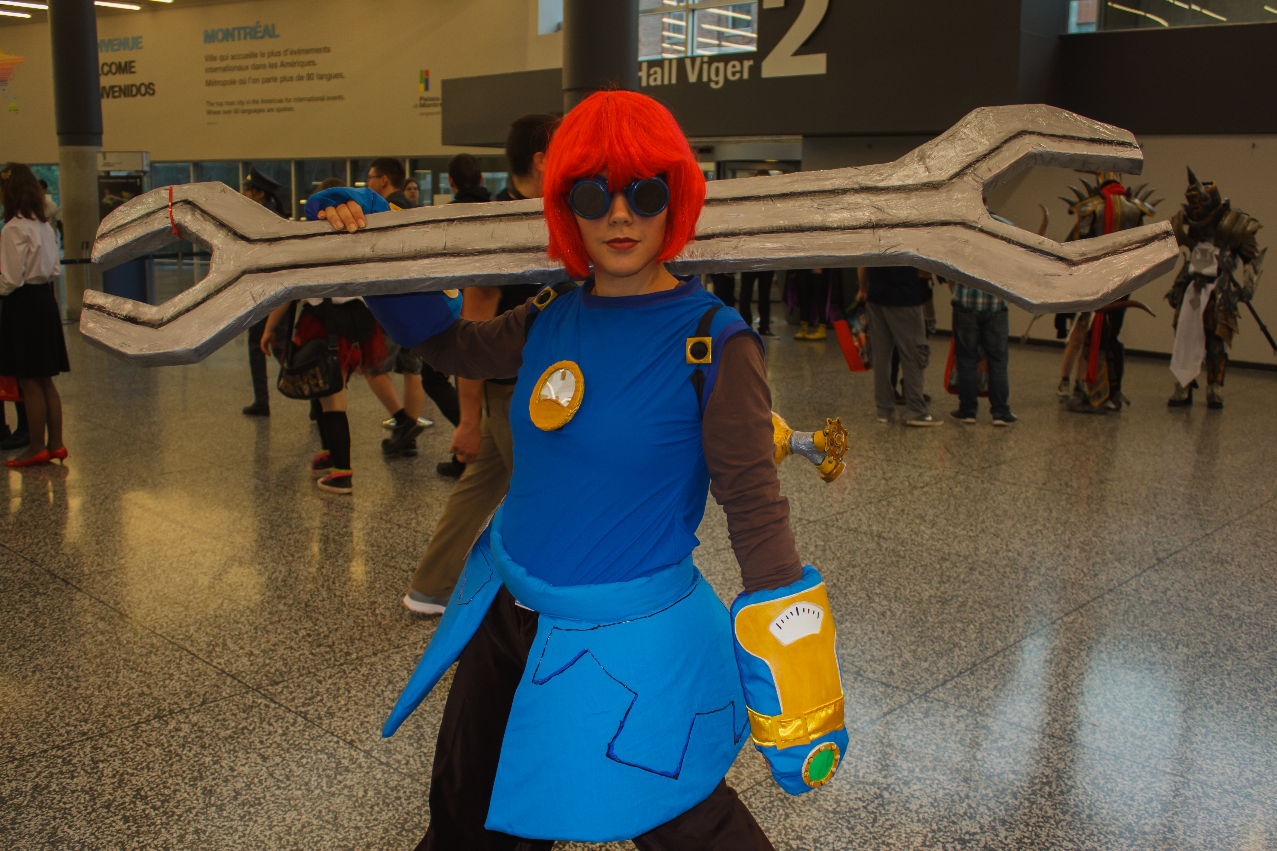 Jasmina Vasquez-Carmel cosplaying as Sprocket (from Skylanders) on Saturday, day two, of the Montreal Comiccon 2016.